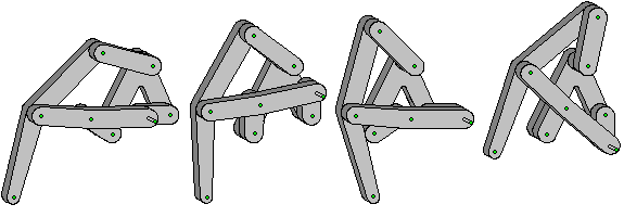 Klann linkage in 4 different positions throughout the cycle.